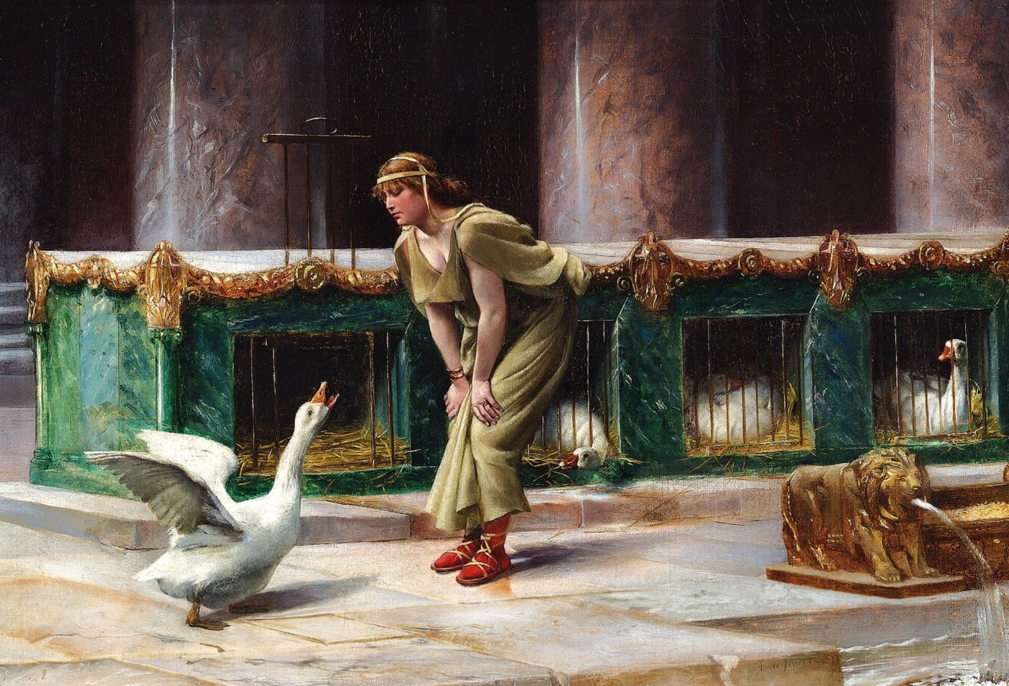 Scene from ancient Rome with the sacred geese kept as guardians in the temple of Juno. While the Roman soldiers and watch dogs slept, Juno's sacred geese on the Capitol warned Rome of the Gallic attack in 390 BC. Signed and dated Henri Motte 89. Oil on canvas. 32 x 46 cm.